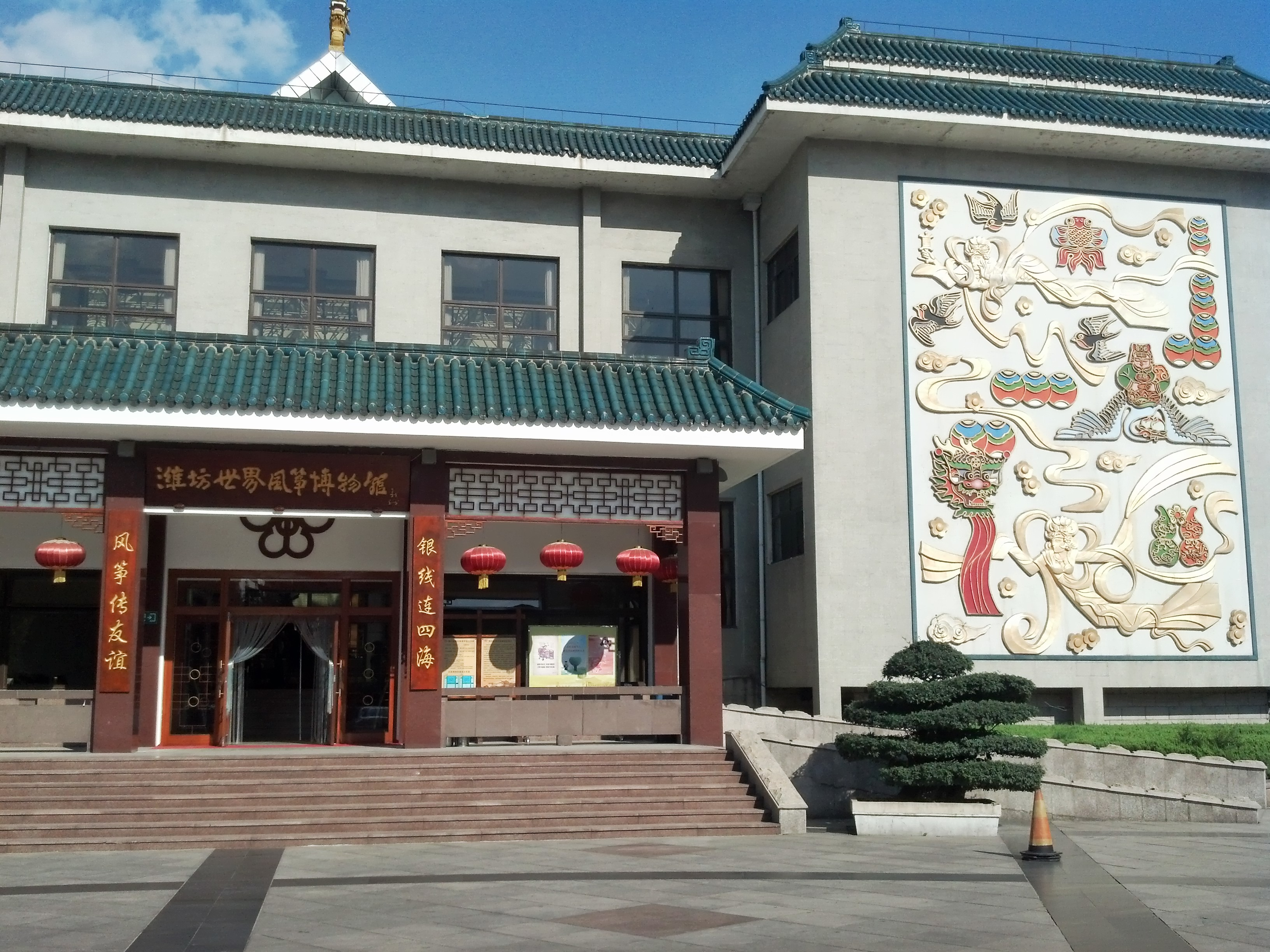 Weifang World Kite Museum. Weicheng, Weifang, Shandong, China